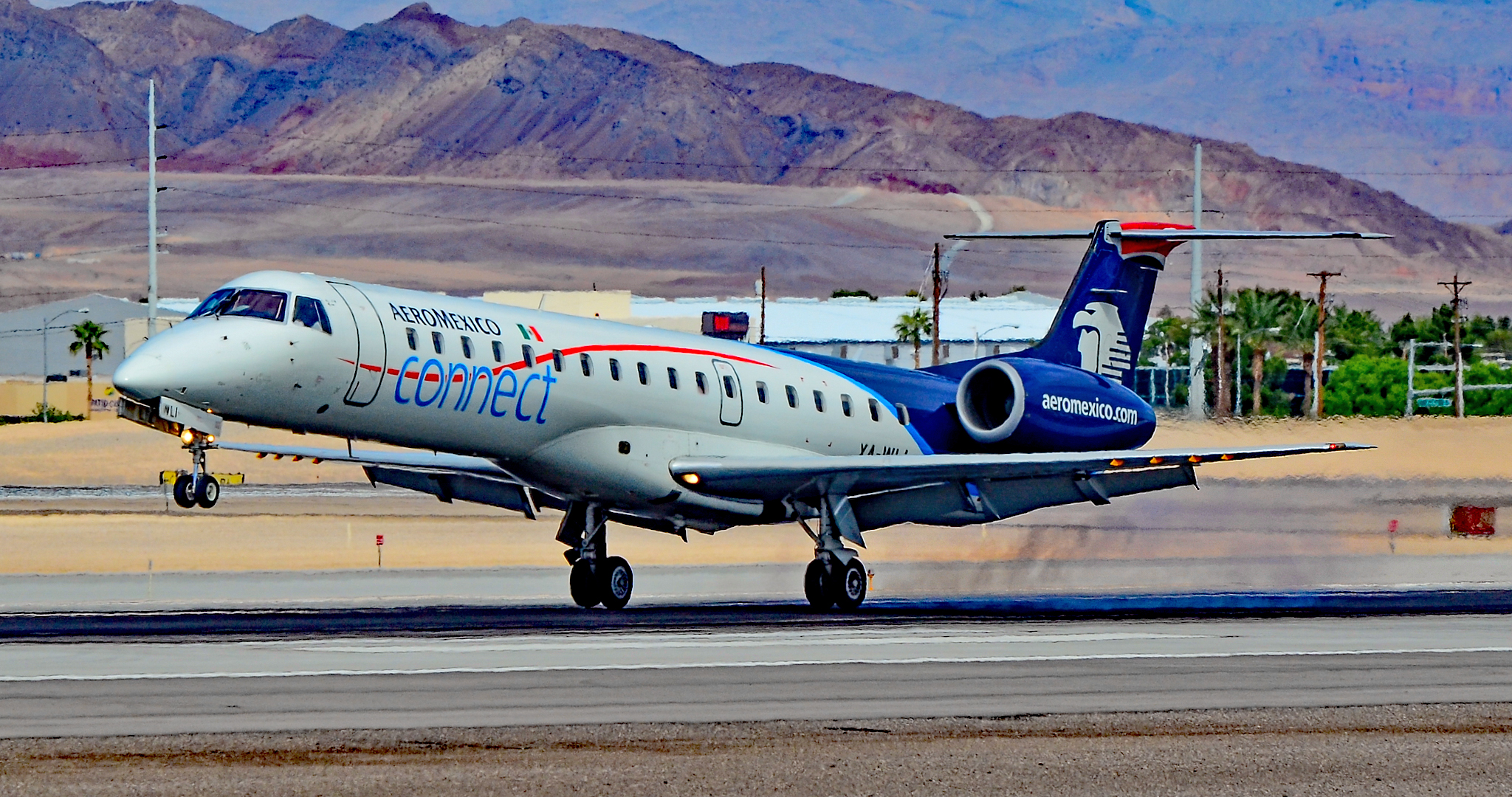 Las Vegas - McCarran International (LAS / KLAS) USA - Nevada, September 12, 2013 Photo: Tomas Del Coro